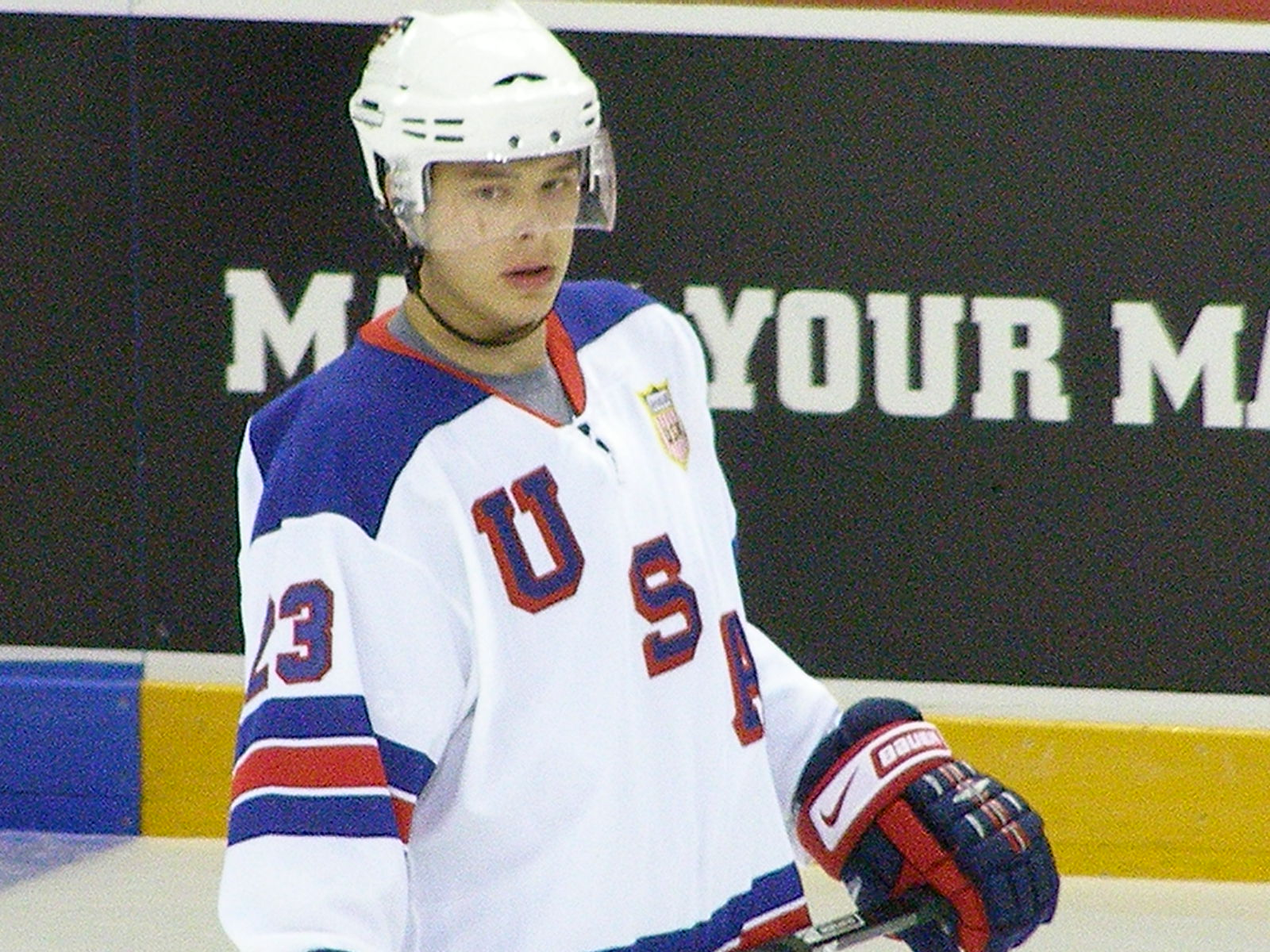 United States forward Dustin Brown plays against Latvia during the 2008 IIHF World Championship